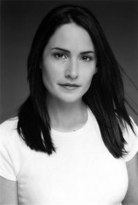 Bianca Biasi Head Shot